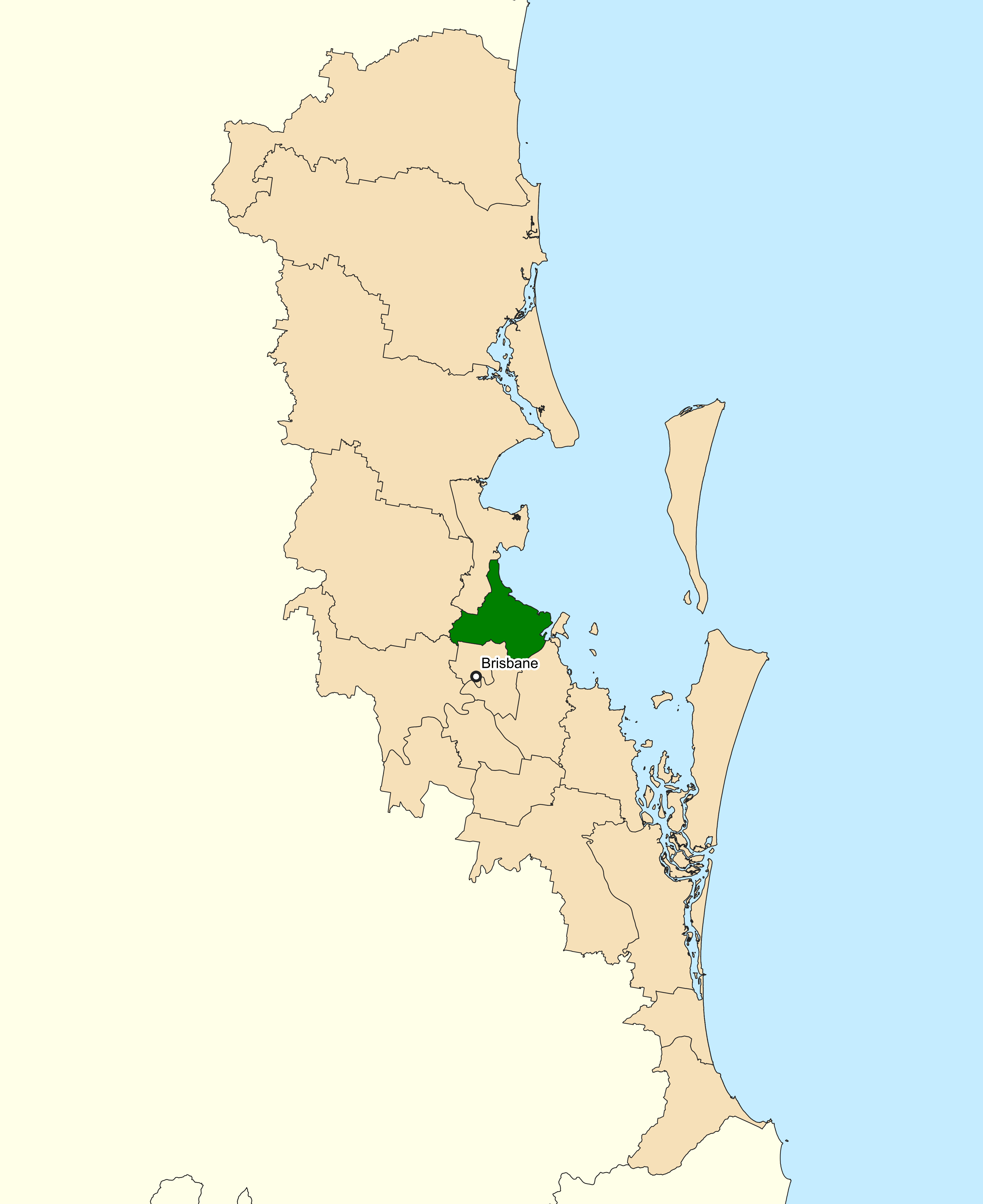 Location of the Australian federal electoral division of Lilley (dark green) in Greater Brisbane, Queensland as of the 2019 Australian federal election. Incorporates or developed using Administrative Boundaries ©PSMA Australia Limited licensed by the Commonwealth of Australia under Creative Commons Attribution 4.0 International licence (CC BY 4.0).